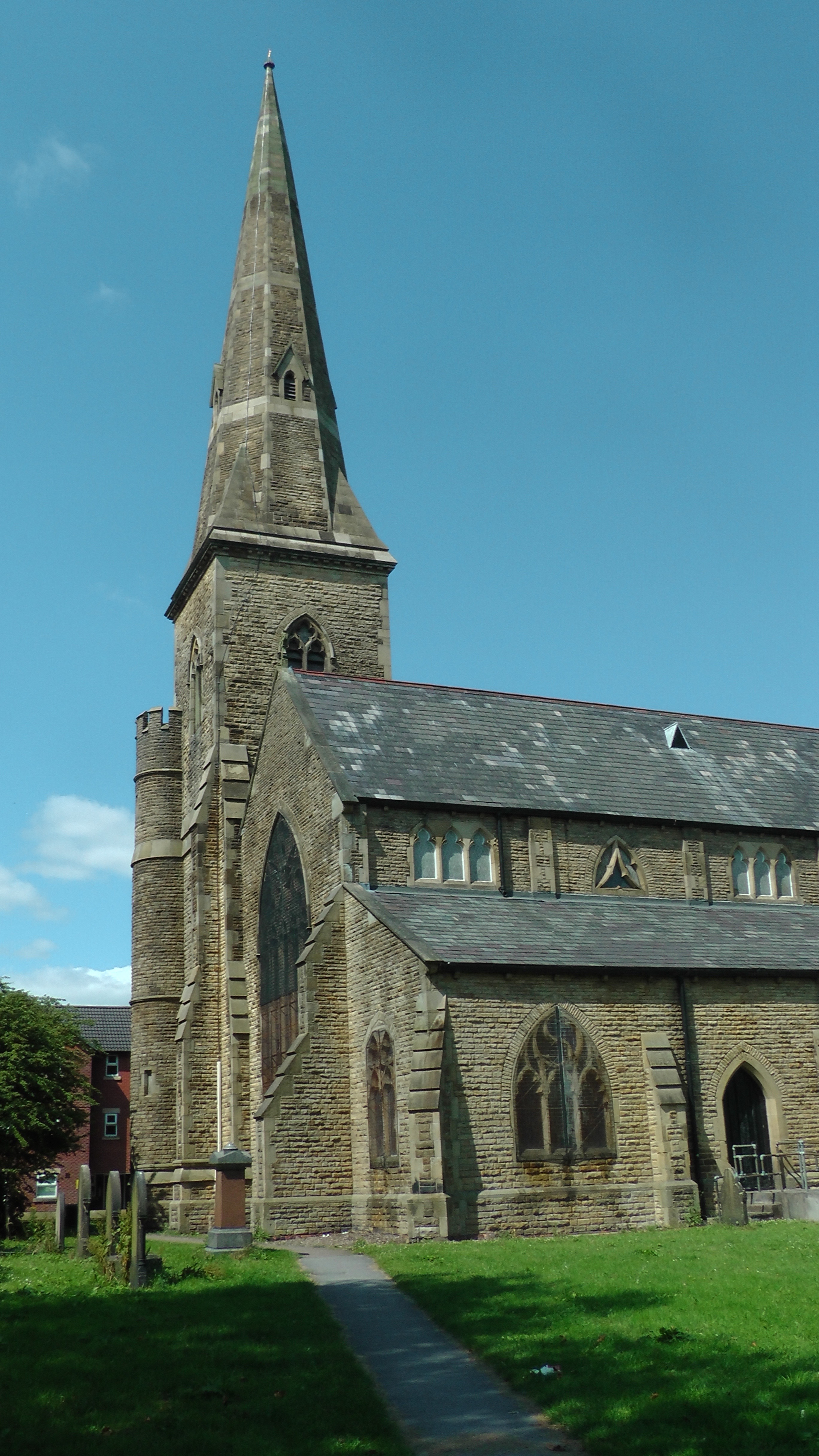 West end of St James' parish church, Gorton, Greater Manchester, seen from the south